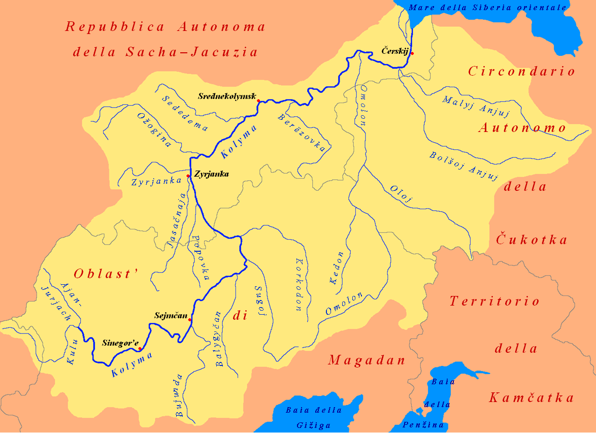 Kolyma basin. Derivative work of Файл:Kolyma.png, originally uploaded on Russian Wikipedia by СафроновАВ.